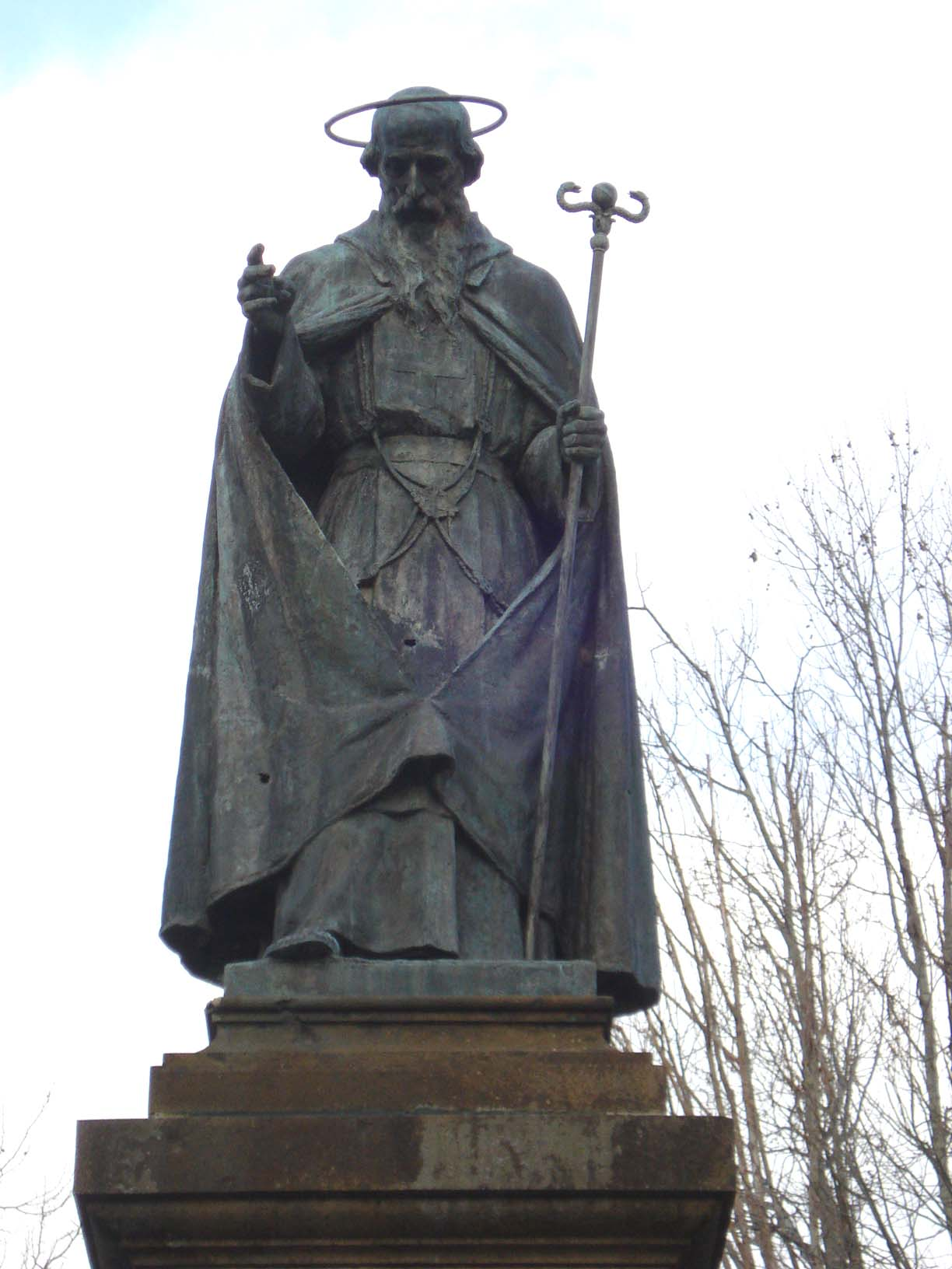 St Nilus monument in Grottaferrata (1904)